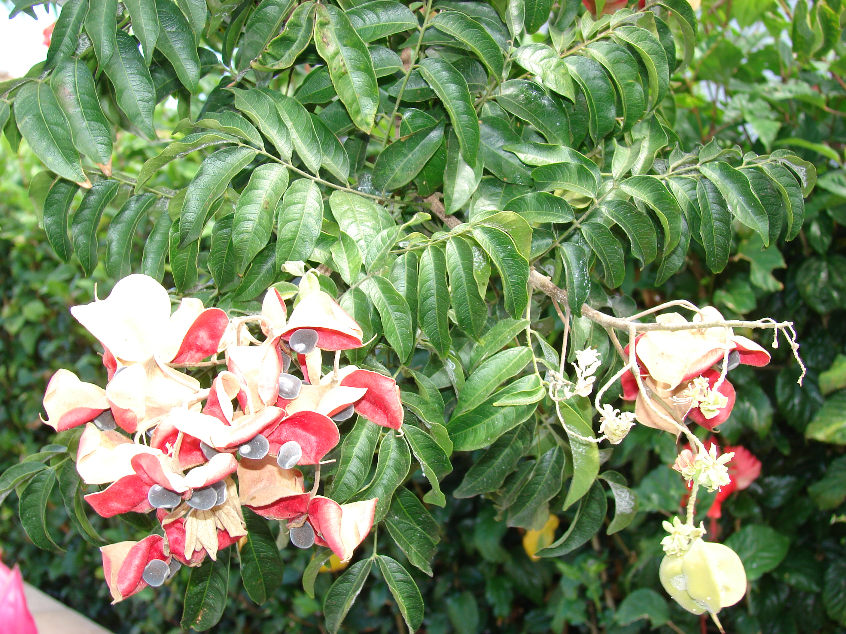 Majidea zanquebarica (leaves flowers and fruit). Location: Maui, Lahaina industrial complex